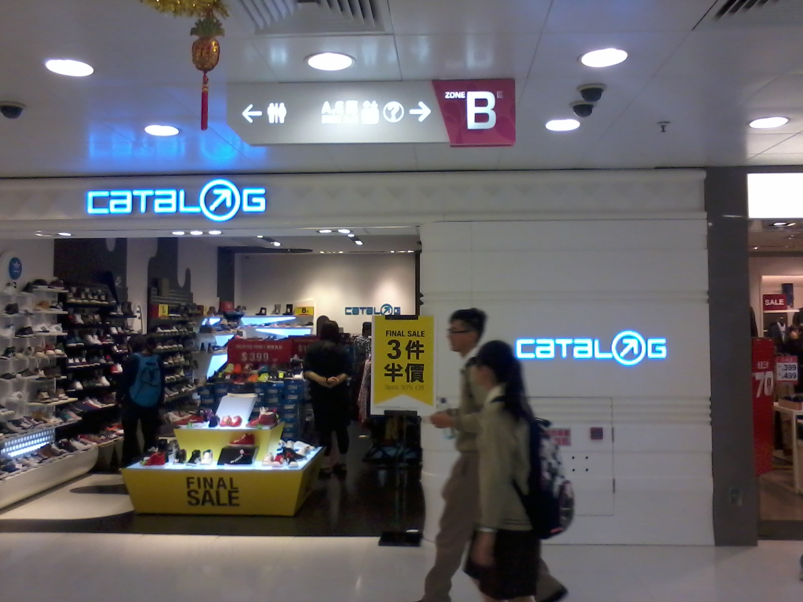 大埔超級城, Tai Po Mega Mall, Tai Po Centre, Tai Po, Hong Kong